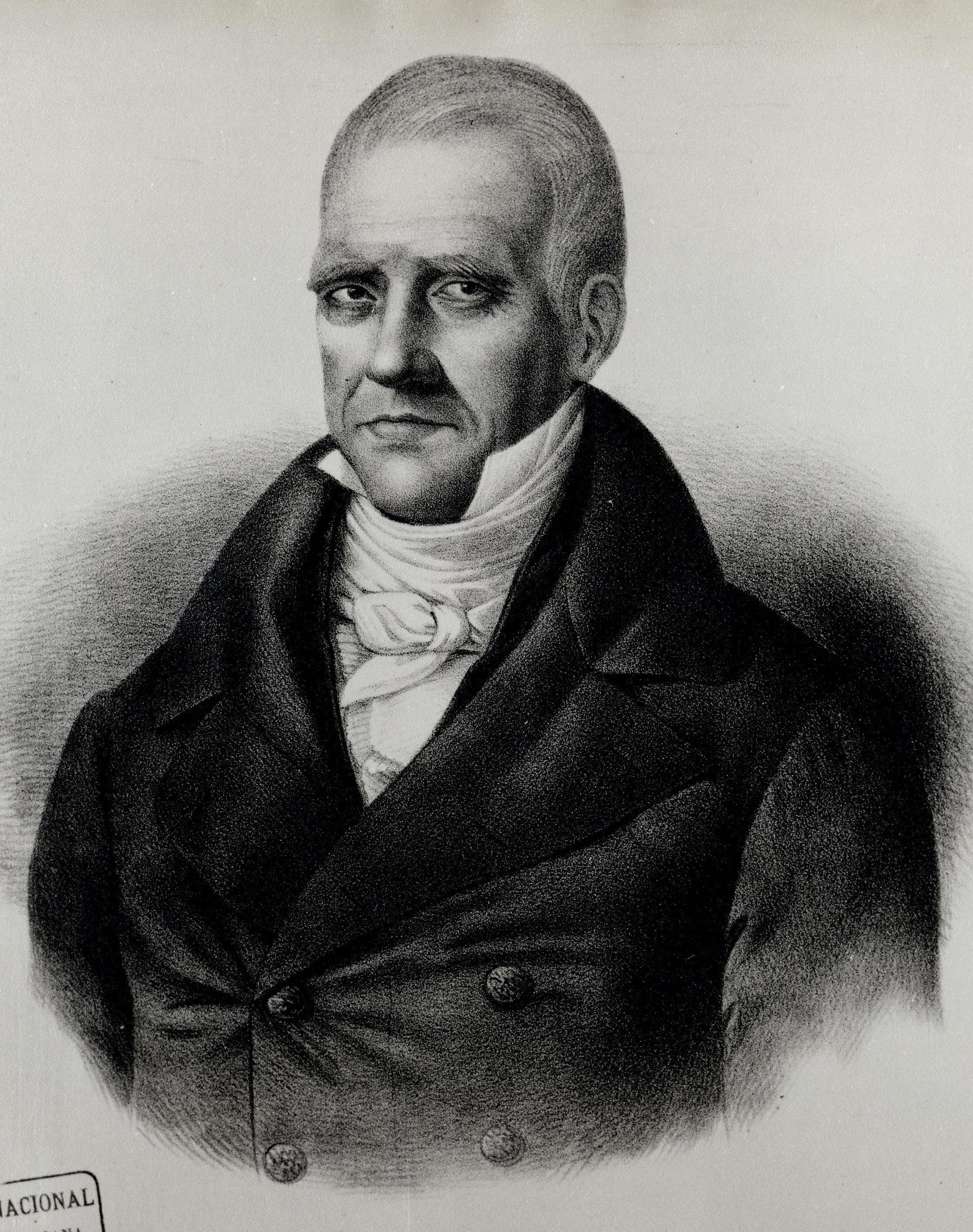 Agustin_Eyzaguirre